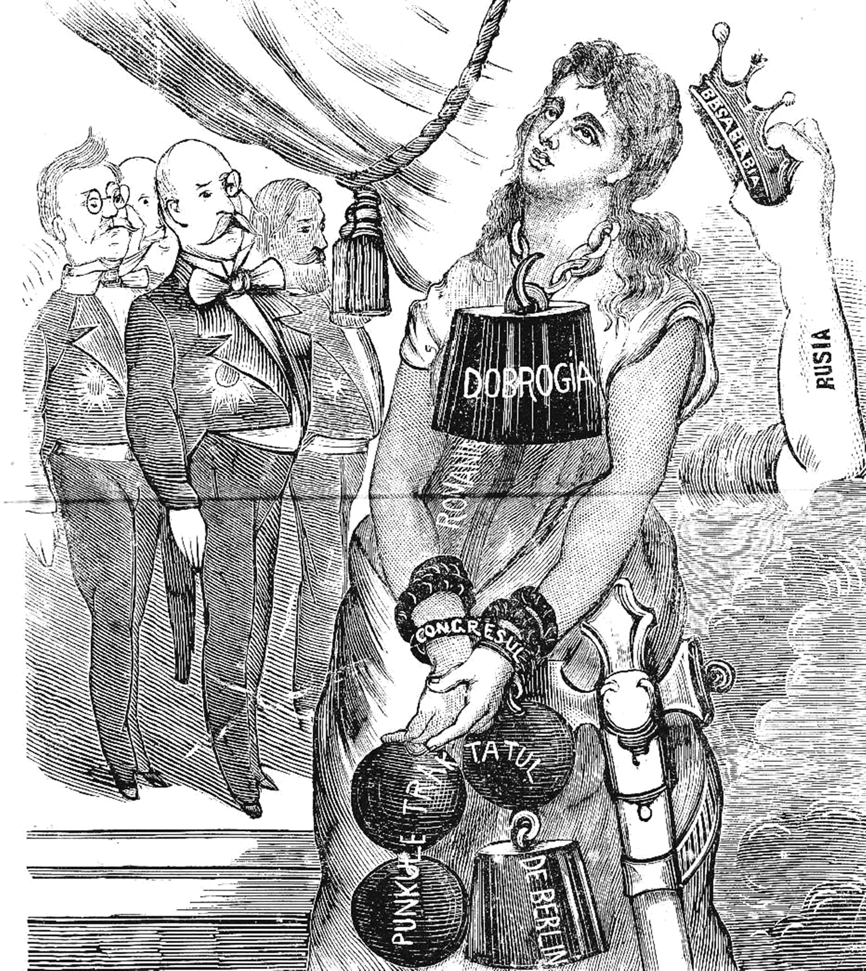 România în starea ce 'ĭ a creat Congresul din Berlin ("Romania as she has been left by the Congress of Berlin"), engraving in Bobârnacul magazine. Bitter commentary on the Berlin Treaty, which recognized Romania's emancipation from the Ottoman Empire, but made her subject to several conditions - including a territorial exchange with Russia. The Budjak, or (southern) Bessarabia, was lost, and Romania had to settle for the territory of Dobruja. At the time, the Romanian public was outraged by the exchange, deeming it unfair and dangerous.Romania, shackled by the "Berlin Treaty points", is being robbed and subdued: a hand, marked "Russia", takes away her crown, marked "Bessarabia"; the large weight hanging from her noose is "Dobruja". The scene is witnessed by stern-looking European statesman (in the front row, Alexander Mikhailovich Gorchakov of the Russian Empire; and Otto von Bismarck of the German Empire).